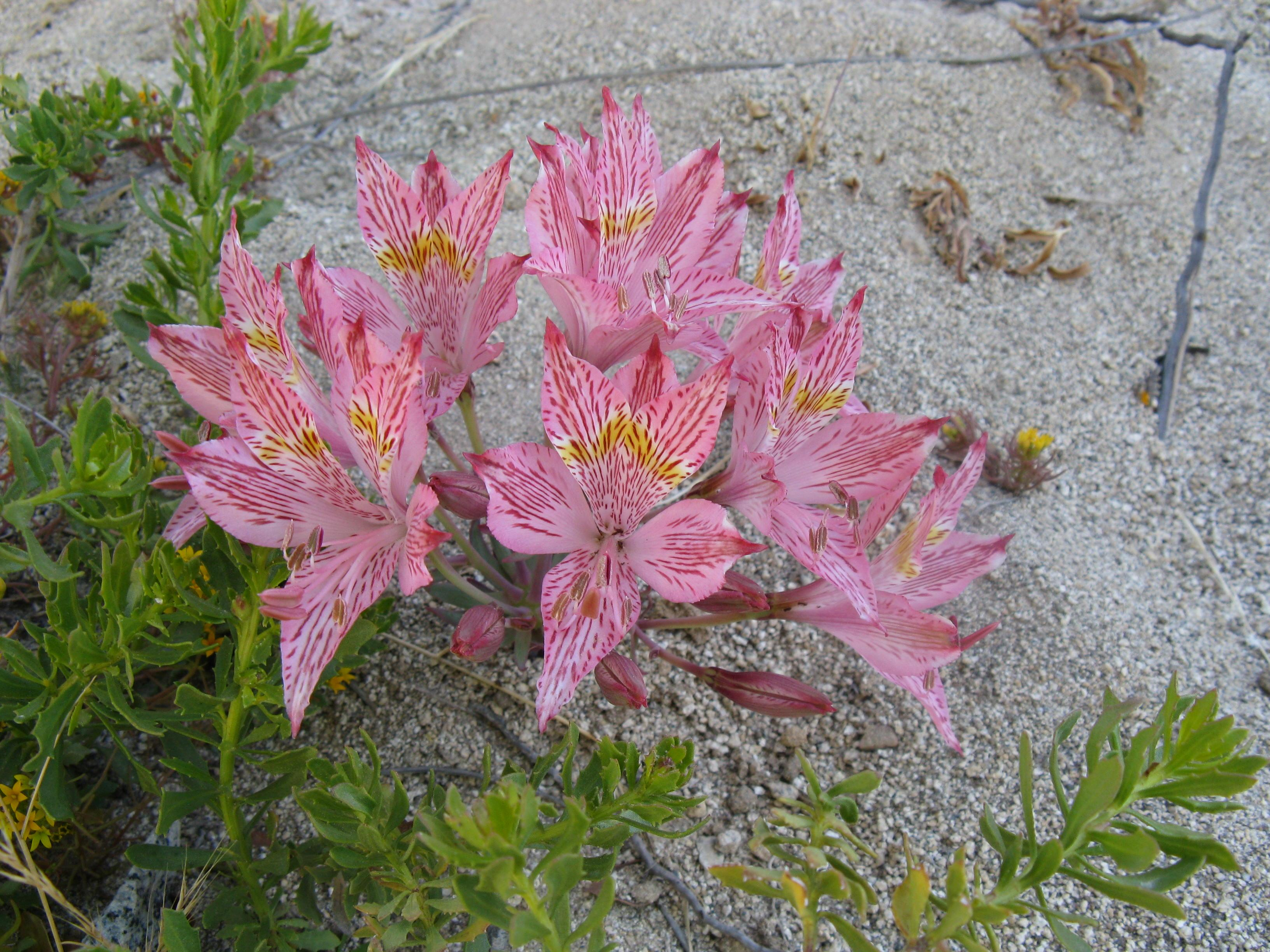 Alstroemeria garaventae in situ